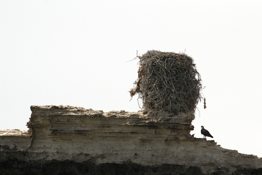 Osprey with its nest. Photographed from a tiny island near to Abu Dhabi City.